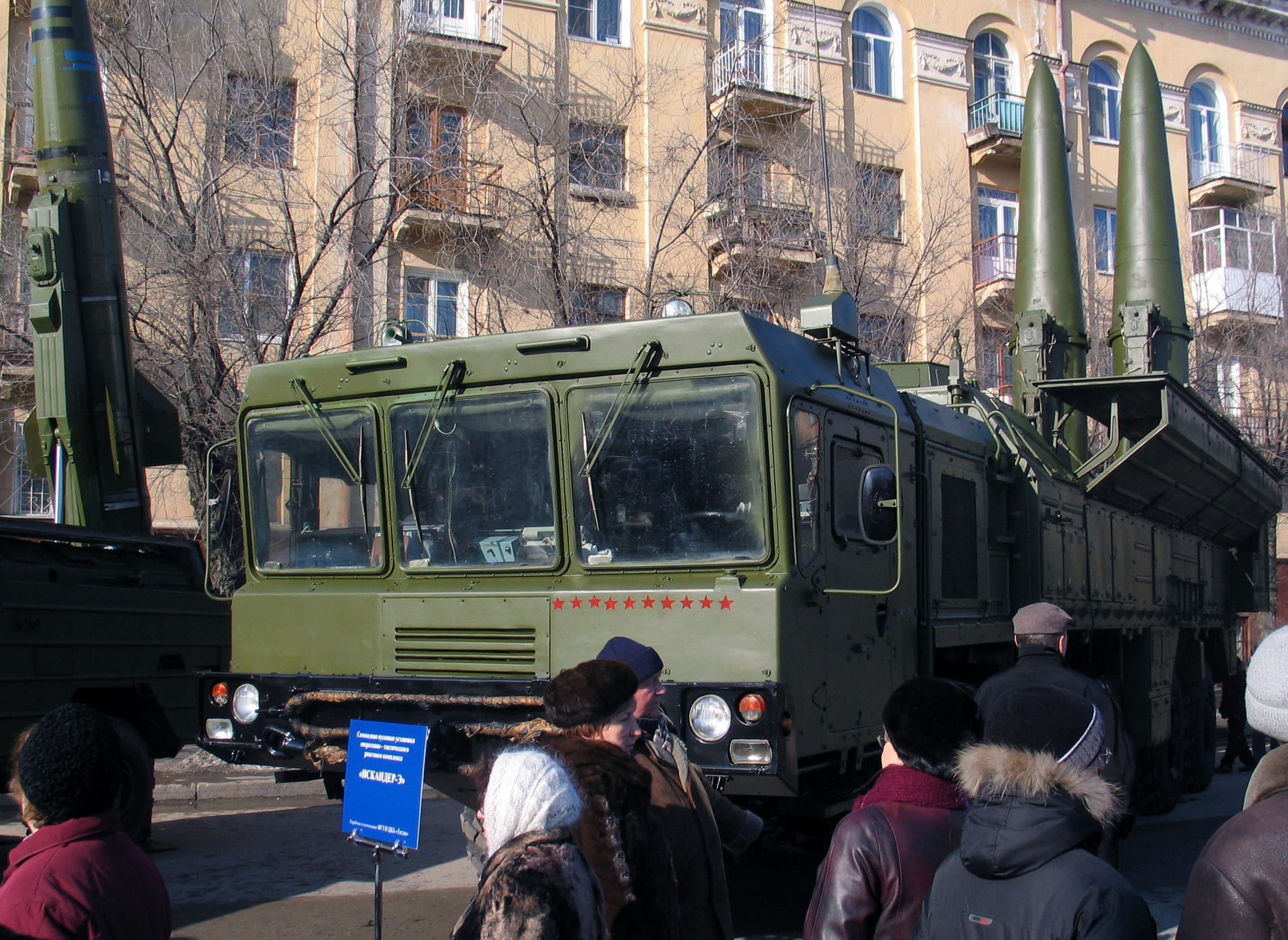 Transporter erector launcher "Iskander-E" with two missiles and "Tochka-U" launcher (background) at the display of military equipment exhibition dedicated to the anniversary of victory in the Battle of Stalingrad. February 2, 2008, in Volgograd.